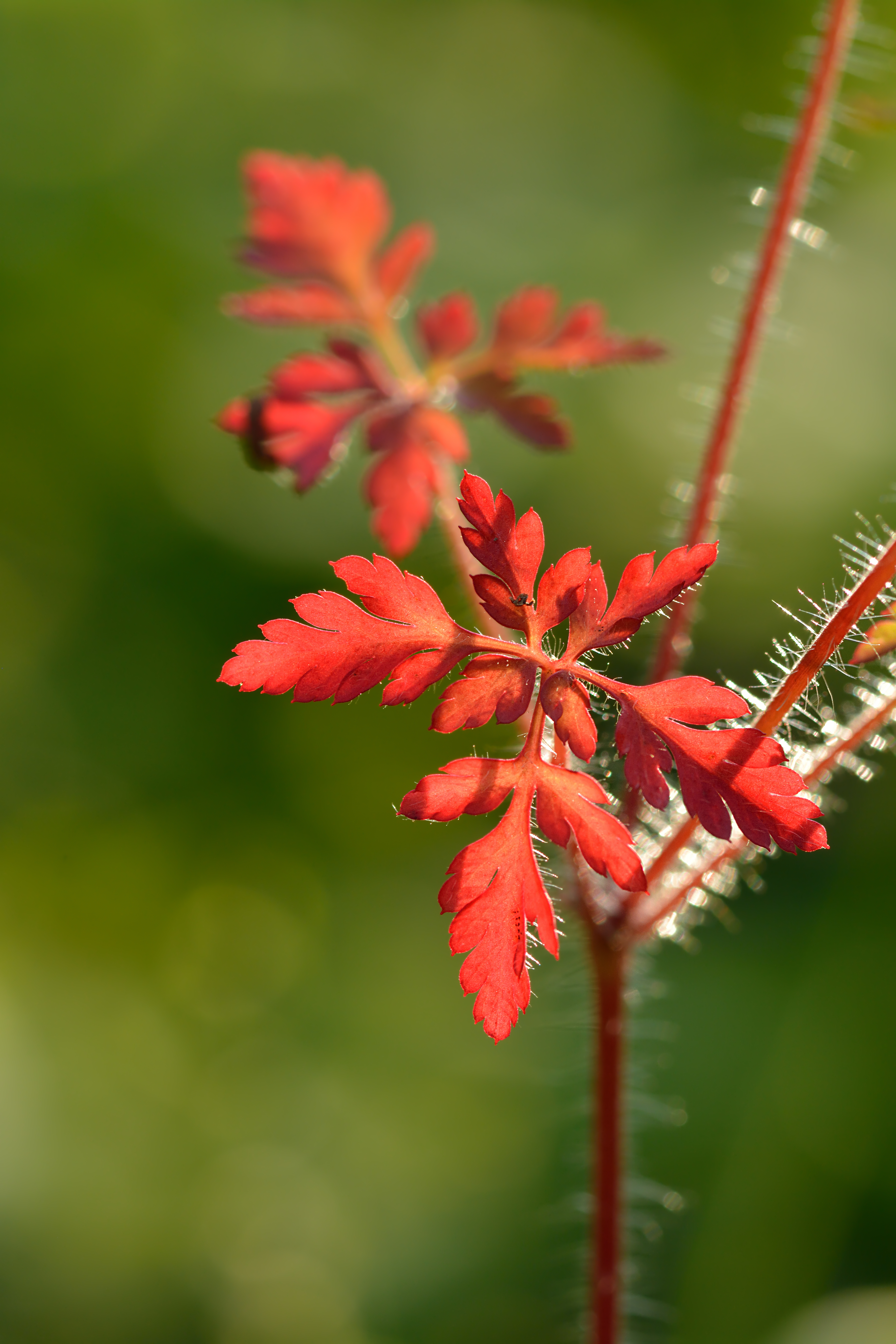 Leaf of herb Robert (Geranium robertianum), Pakri peninsula